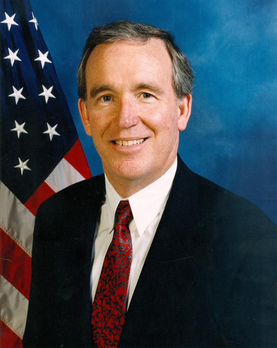 Official Photograph of John W. Carlin, Eighth Archivist of the United States